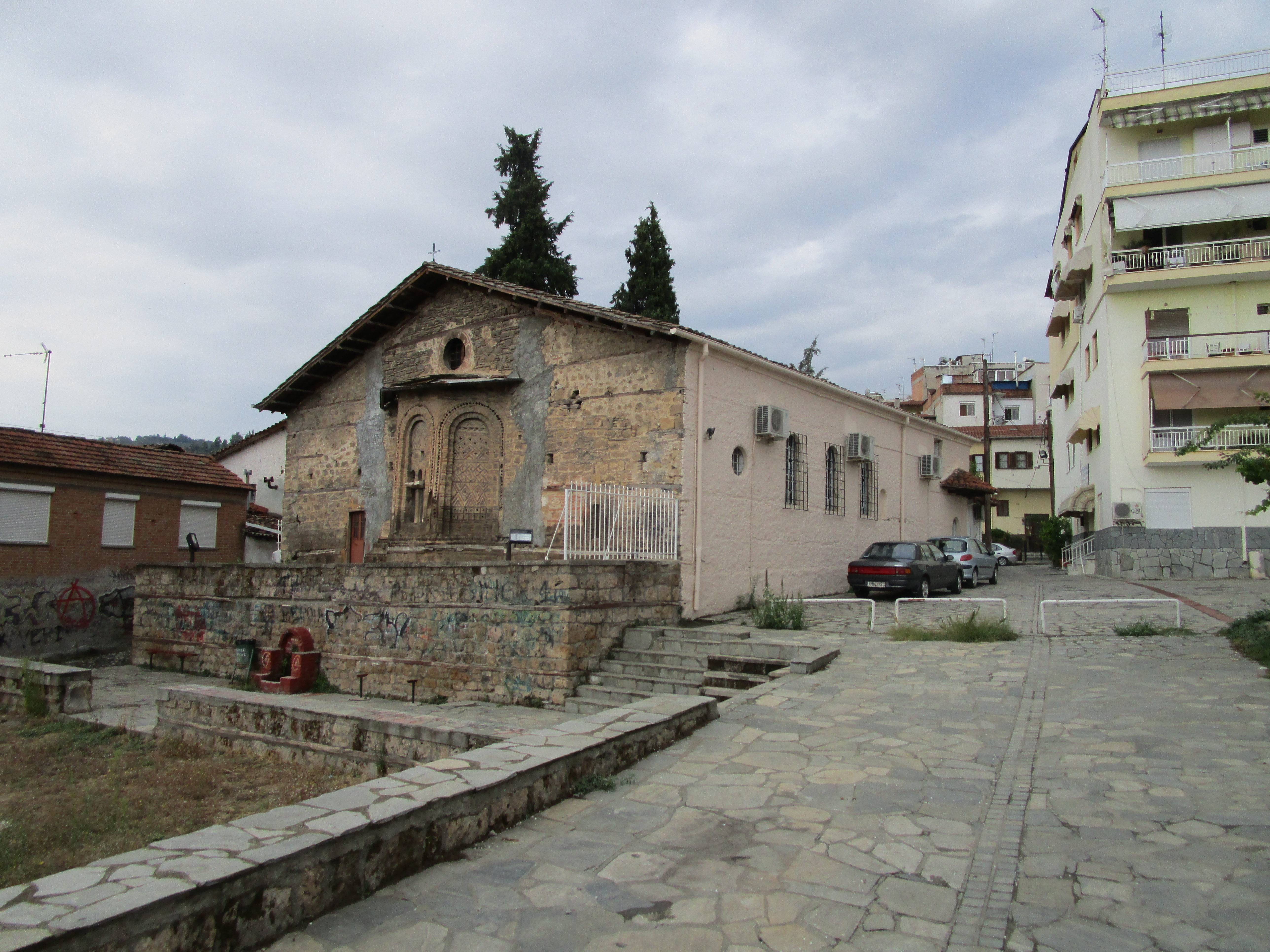 St. Sava, Ber